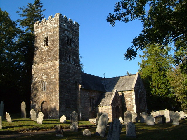 St German's parish church, Germansweek, Devon, seen from the southwest